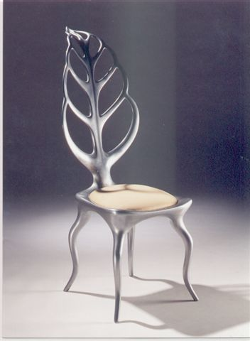 Leaf Chair Aluminium by Mark Reed